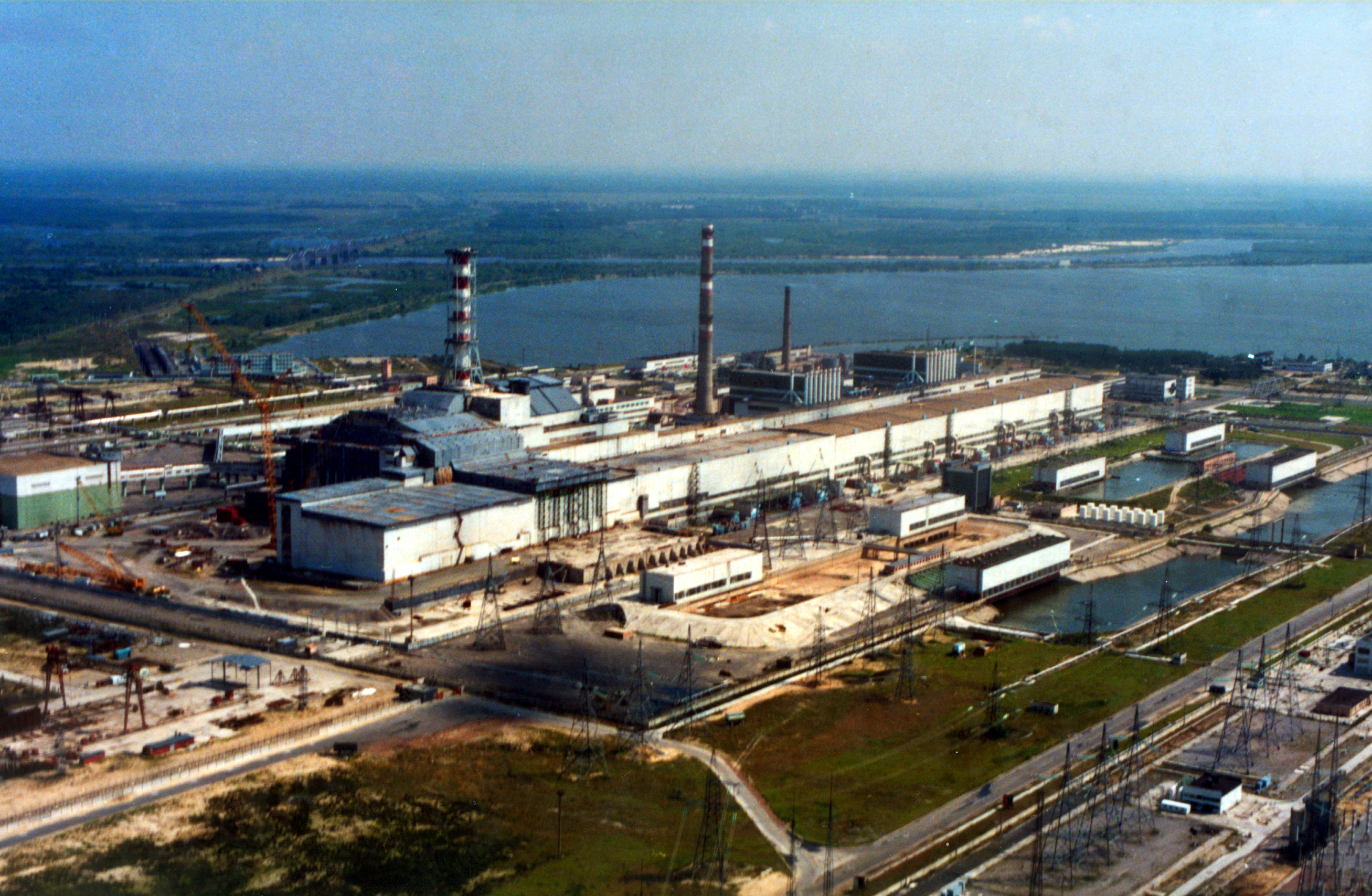 Aerial view Chernobyl nuclear power plant with sarcophagus. (Chernobyl, Ukraine) Photo Credit: Vadim Mouchkin / IAEA